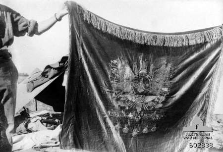 Original AWM caption: "The flag of the 46th Turkish Battalion, which was captured by the 9th Australian Light Horse at Khan Ayash, and is in the collection of the Australian War Memorial." Other information Copyright expired; access unrestricted